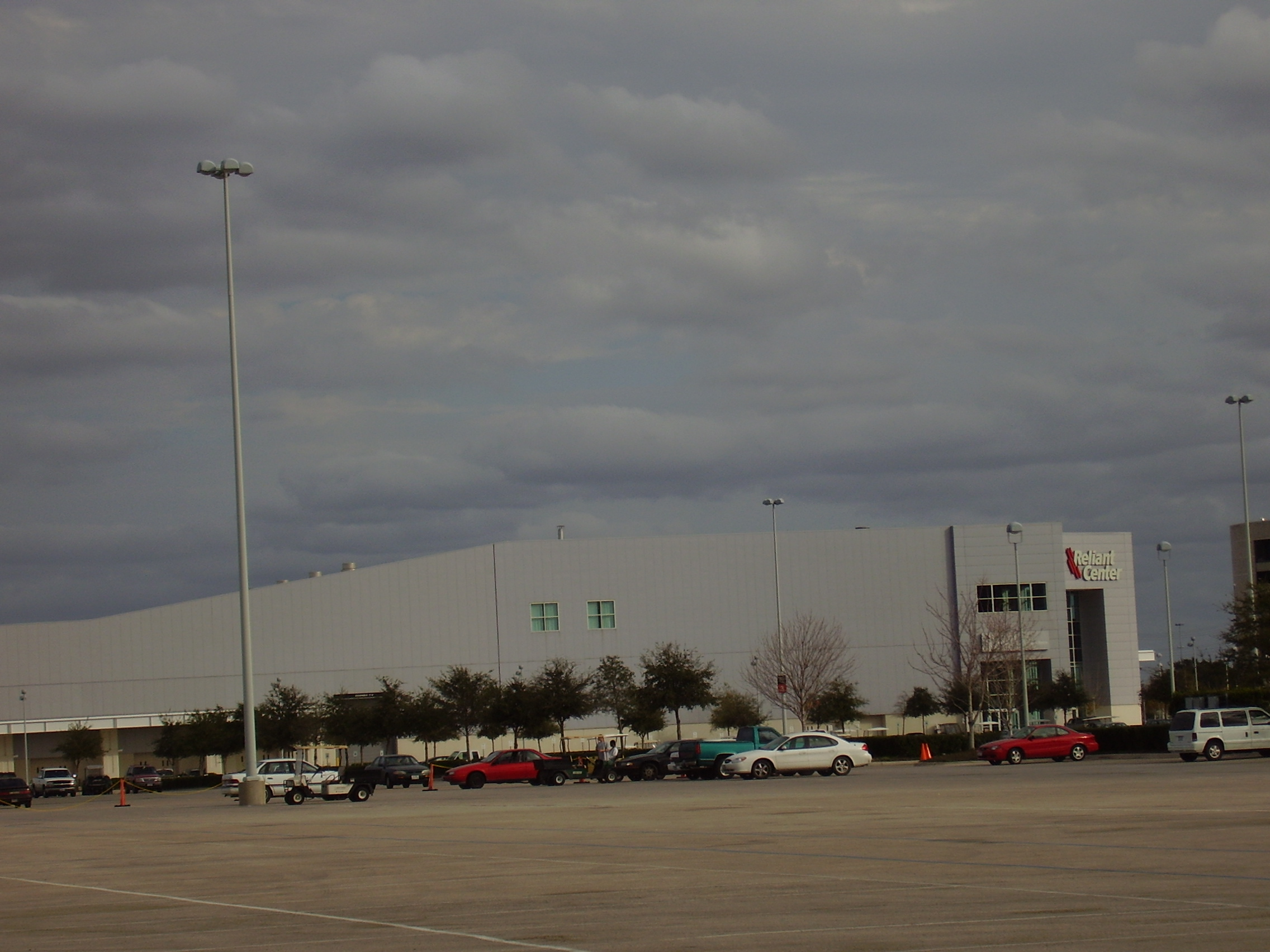 Taken by WhisperToMe